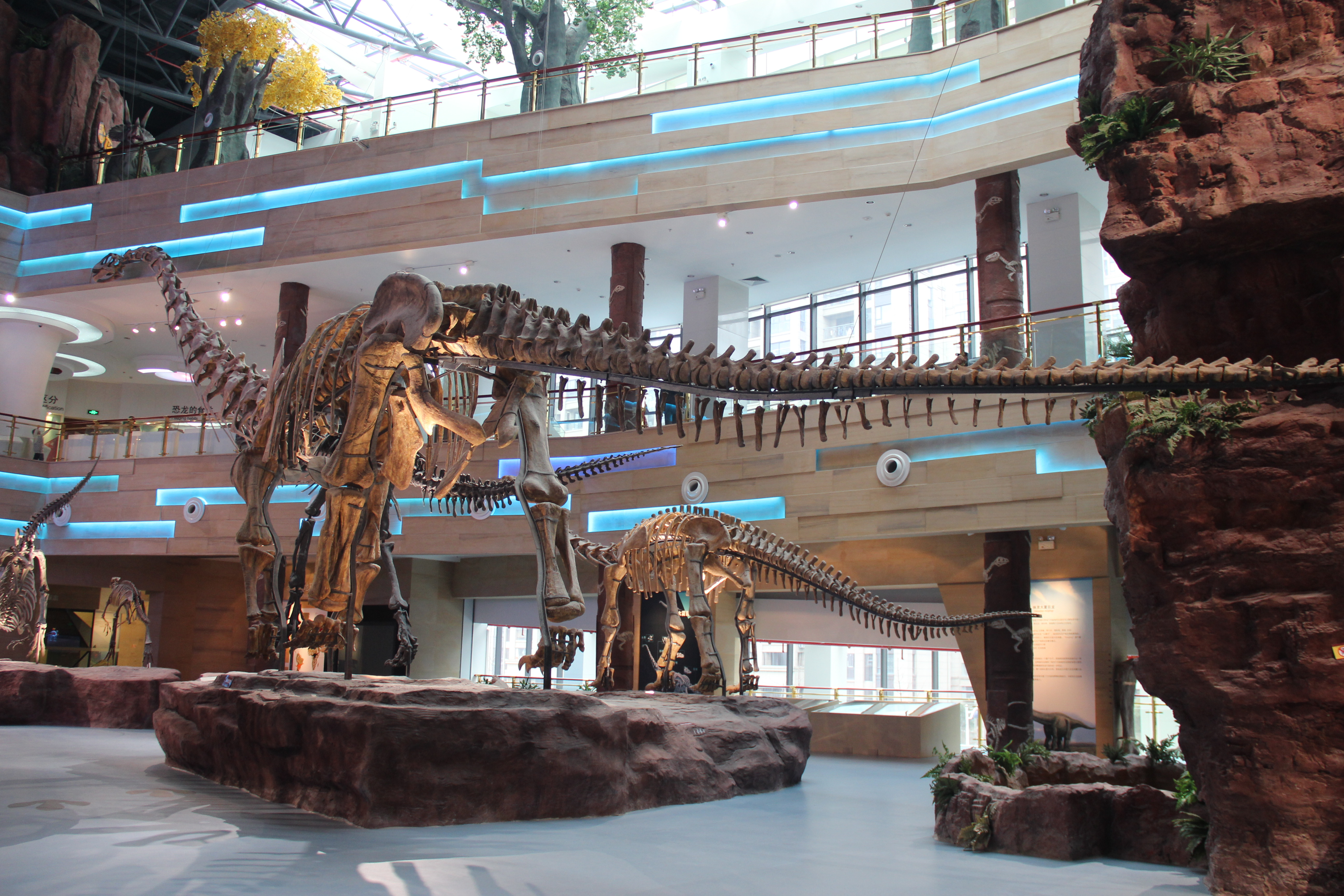 Anhui Geological Museum, Hefei. Complete indexed photo collection at .